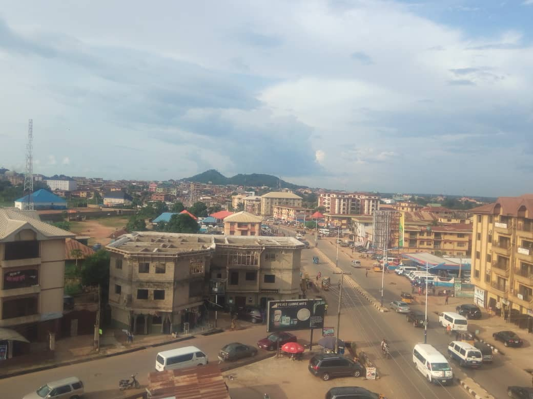 Abakaliki metropolis with Azugwu Hill in background, Abakaliki, Ebonyi State, Nigeria